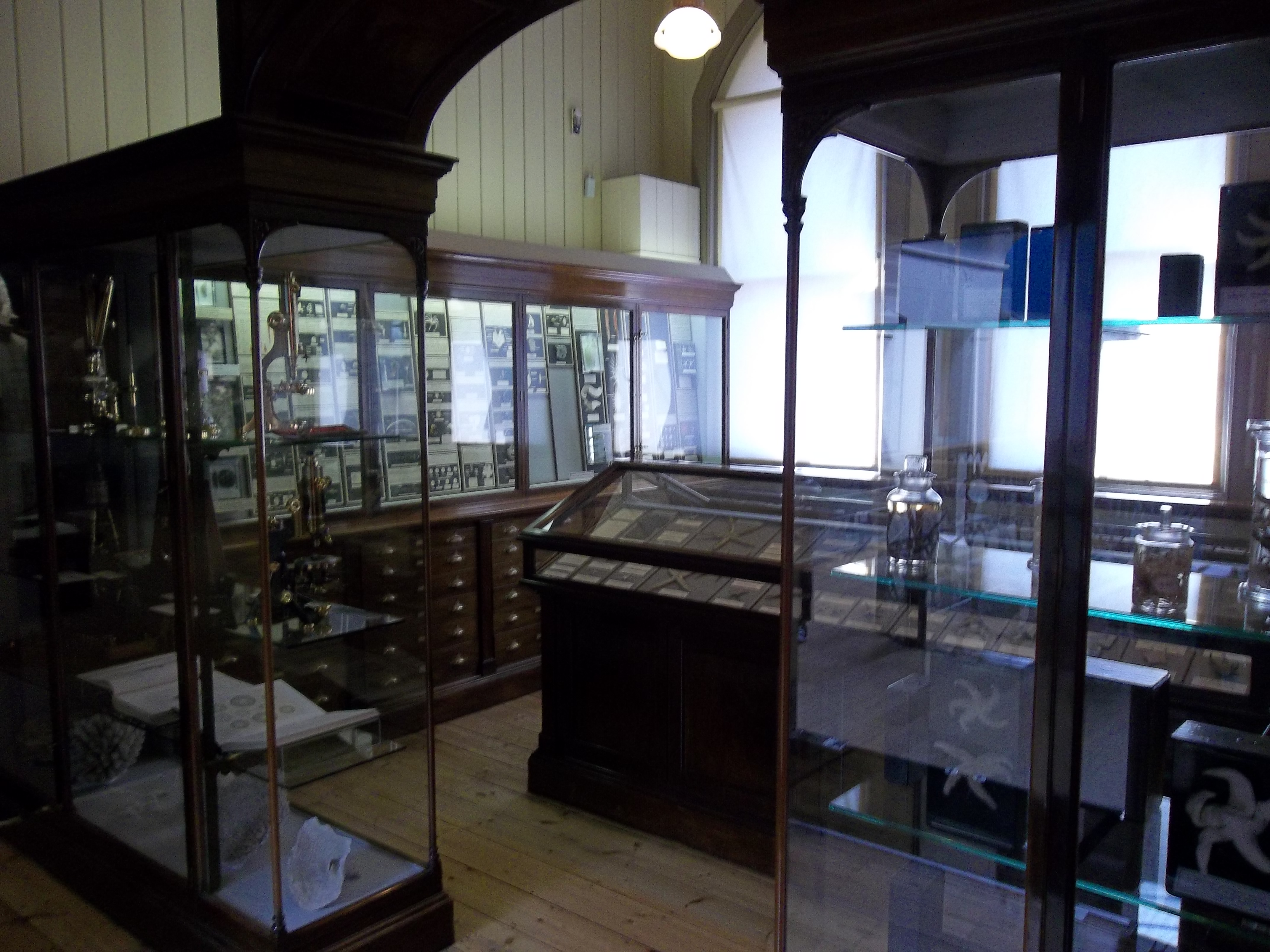 A photograph of part of the Sladen Collection of echinoderms housed in Exeter's Royal Albert Memorial Museum (RAAM).